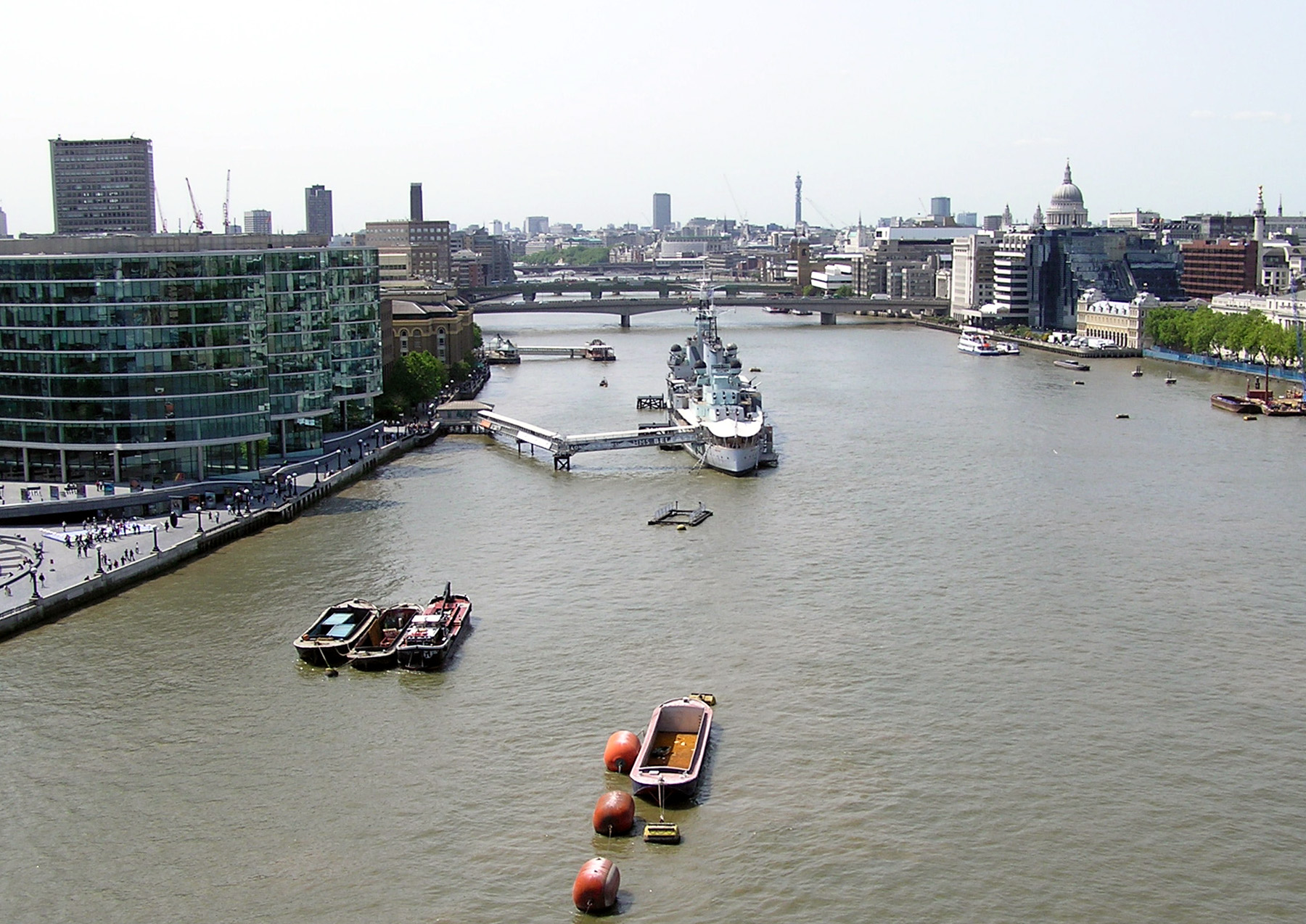 View looking west, from the high-level walkway on Tower Bridge. One third in from the left is the slender tower of Tate Modern. One third in from the right is the needle of the BT Tower. Right: the dome of Saint Pauls Cathedral. On the river: HMS Belfast. Far right: The Great Fire of London Monument (a column with a golden top). Photographed by Adrian Pingstone in June 2005 and released to the public domain.